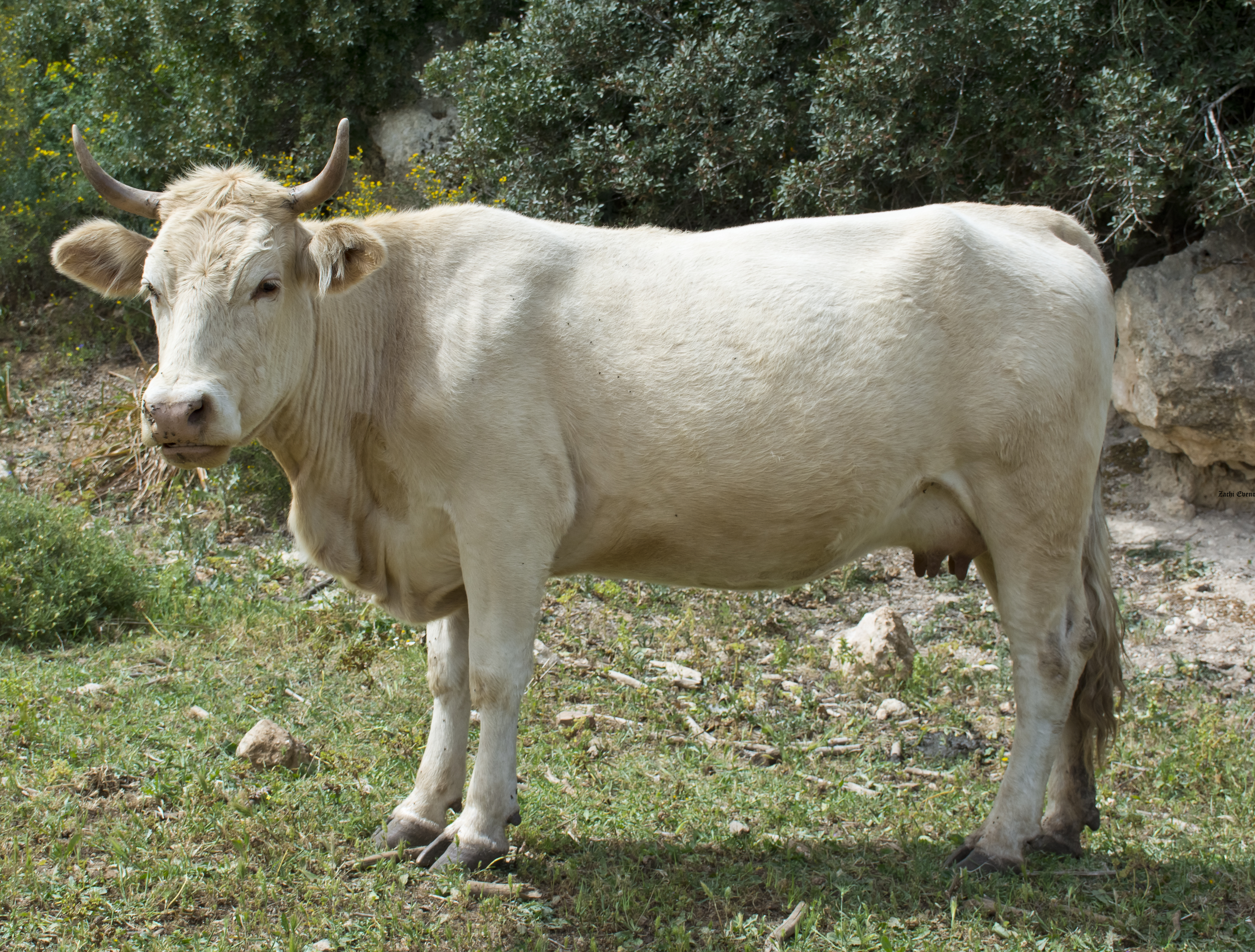 Cow (Bos taurus), Southern Carmel Ridge, Israel